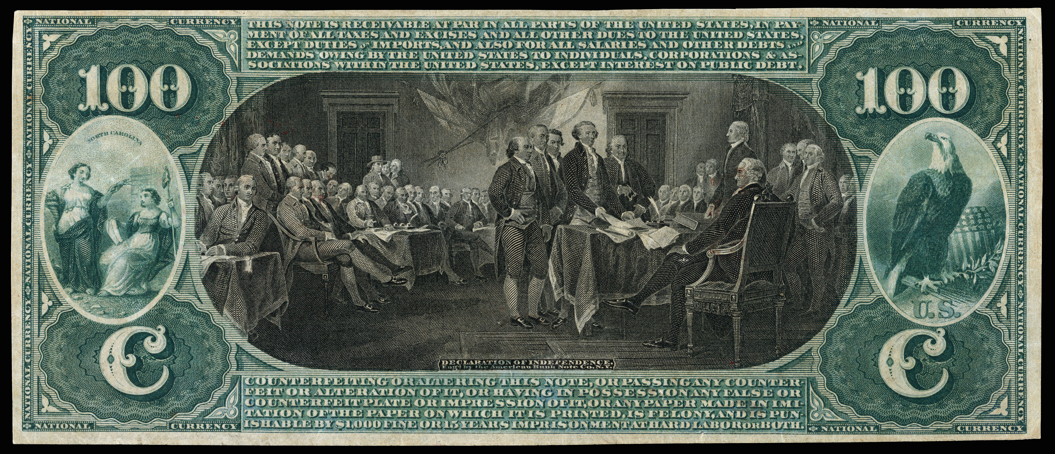 $100 Original Series (reverse)The Raleigh National Bank, Raleigh, North Carolina (Charter #1557)Chartered 1865, Liquidated 5 September 1885President William Horn BattleCashier Charles Francis Dewey